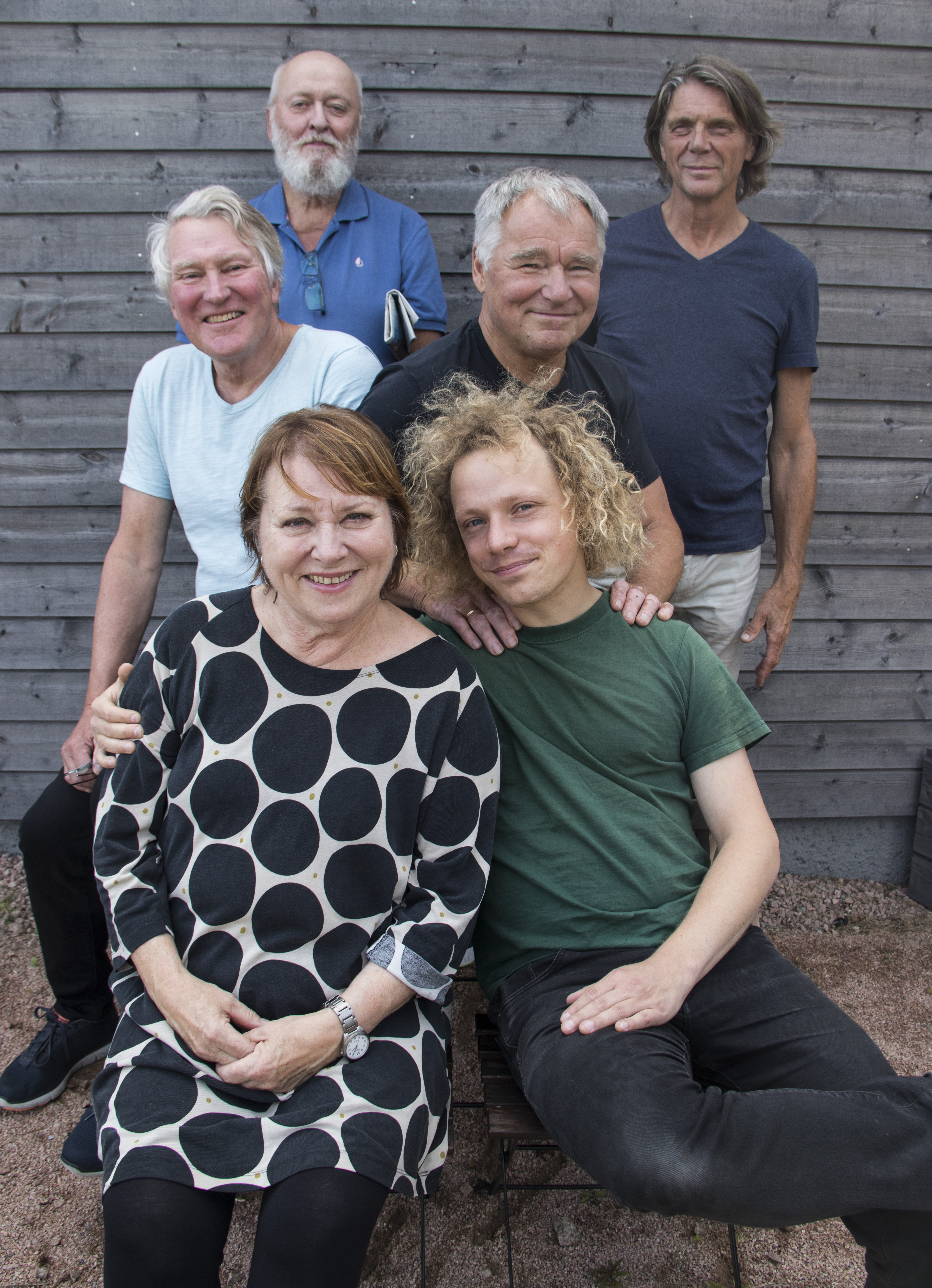 The Norwegian folk group På stengrunn in 2019.